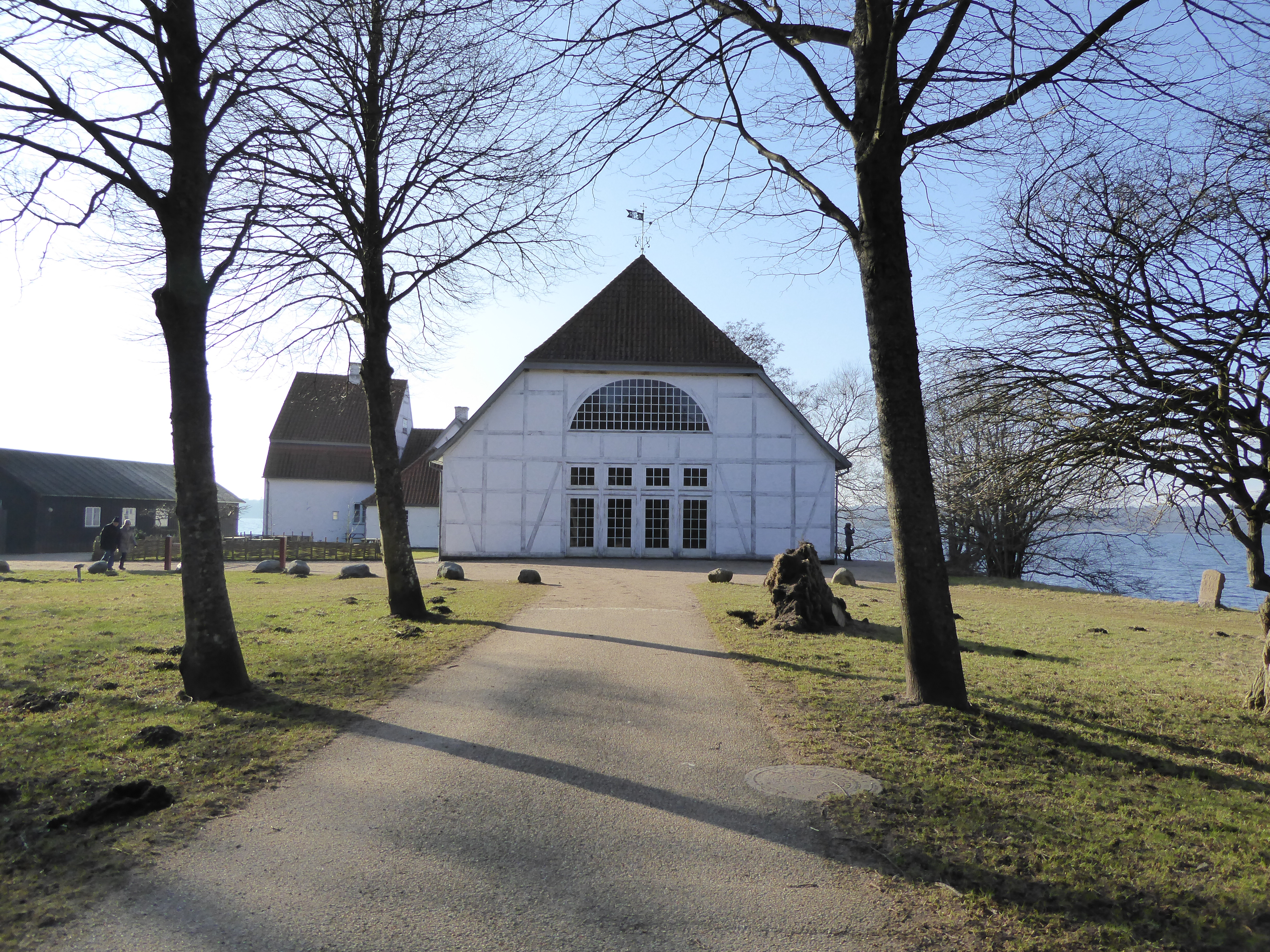 Skipperhuset in Fredensborg, Denmark